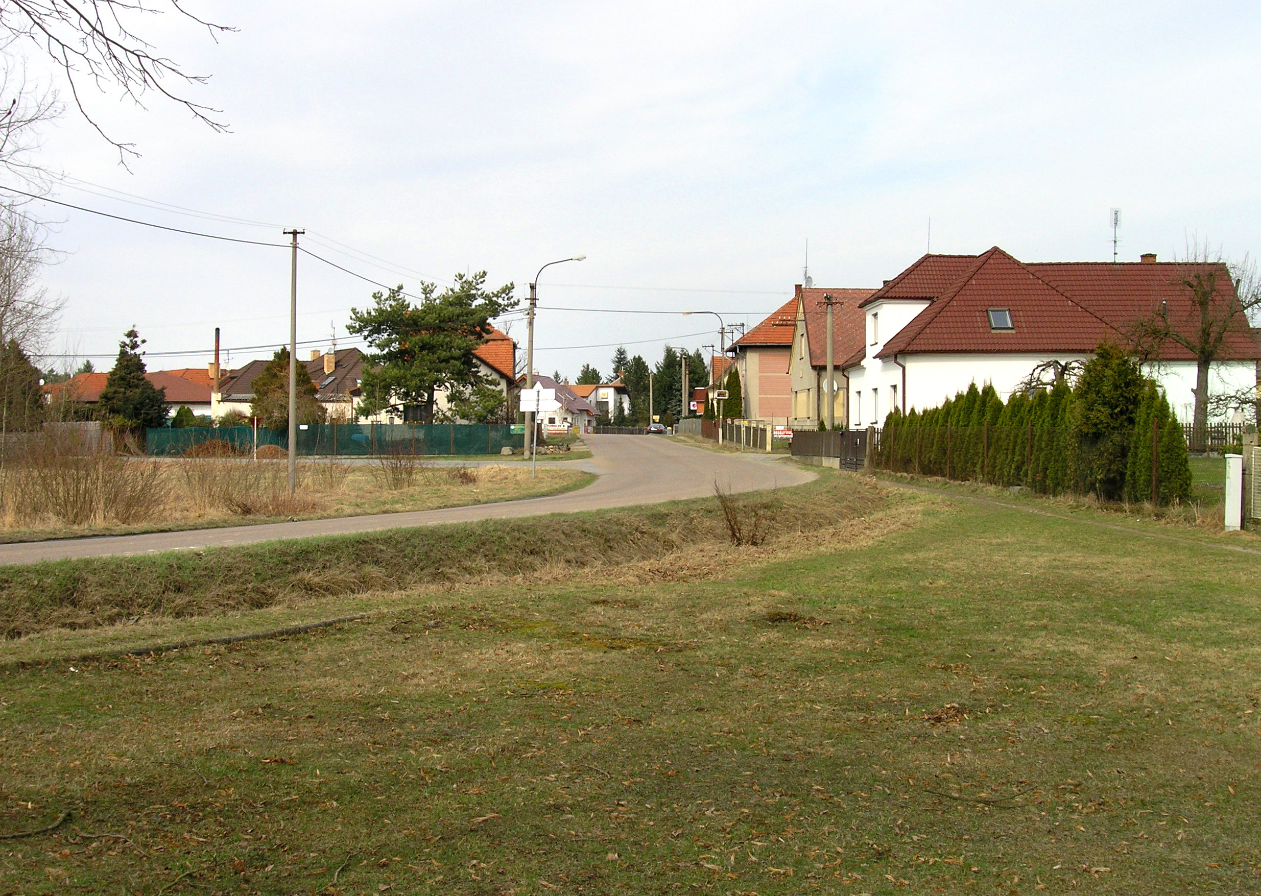 Plzeňská street in the south part of Senec, part of Zruč-Senec village, Czech Republic